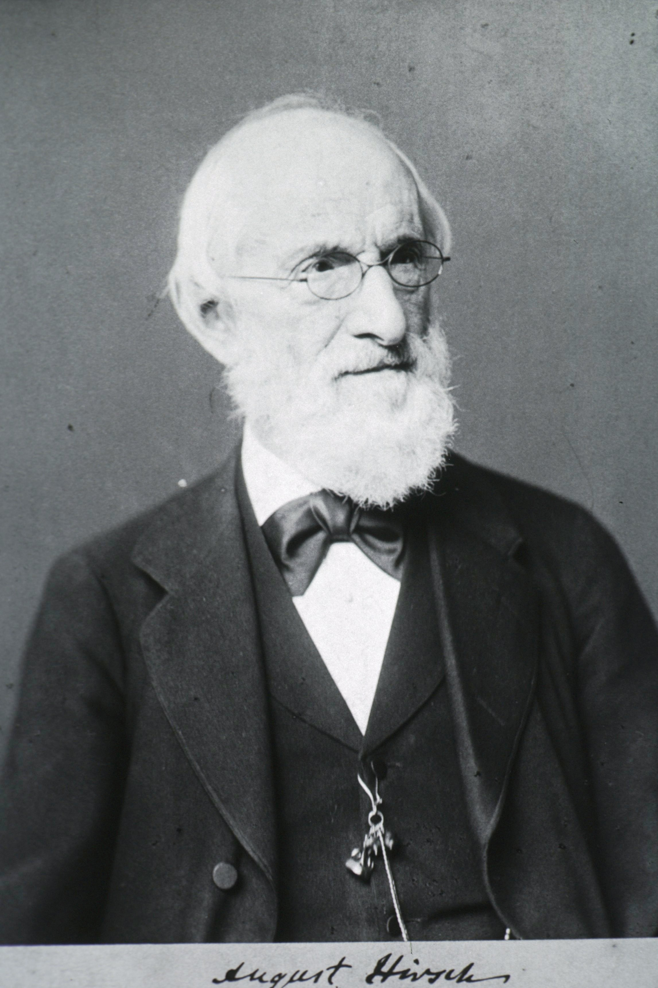 August Hirsch